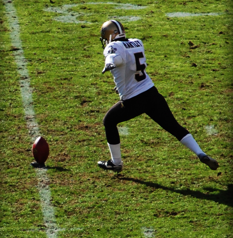 Garrett Hartley of the New Orleans Saints on November 16, 2008 in a game against the Kansas City Chiefs